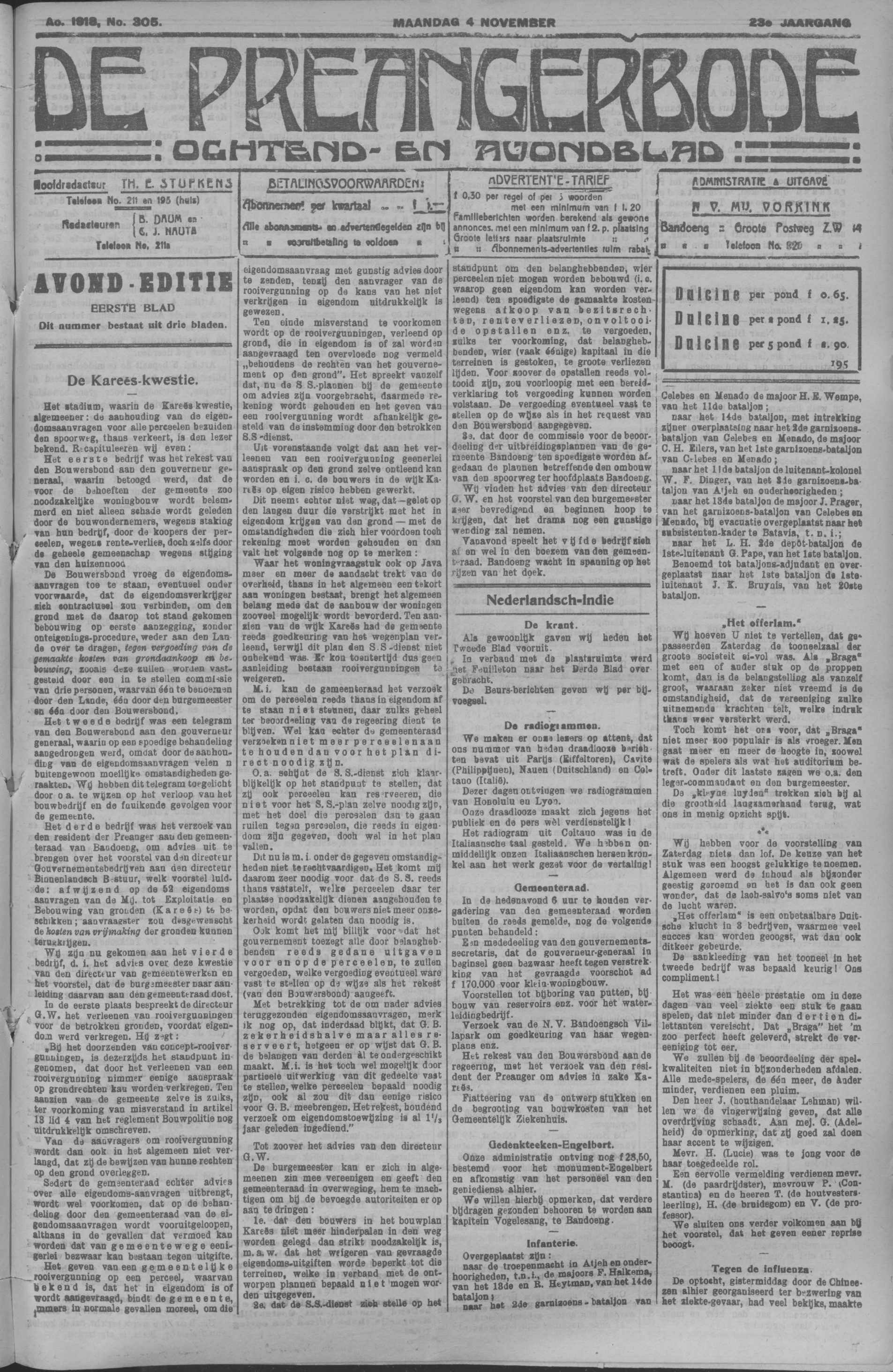 This is the front page of De Preangerbode, a Dutch-language newspaper from the Dutch East Indies, from November 4, 1918. This image originated on Delpher, an archive of Dutch-language newspapers.